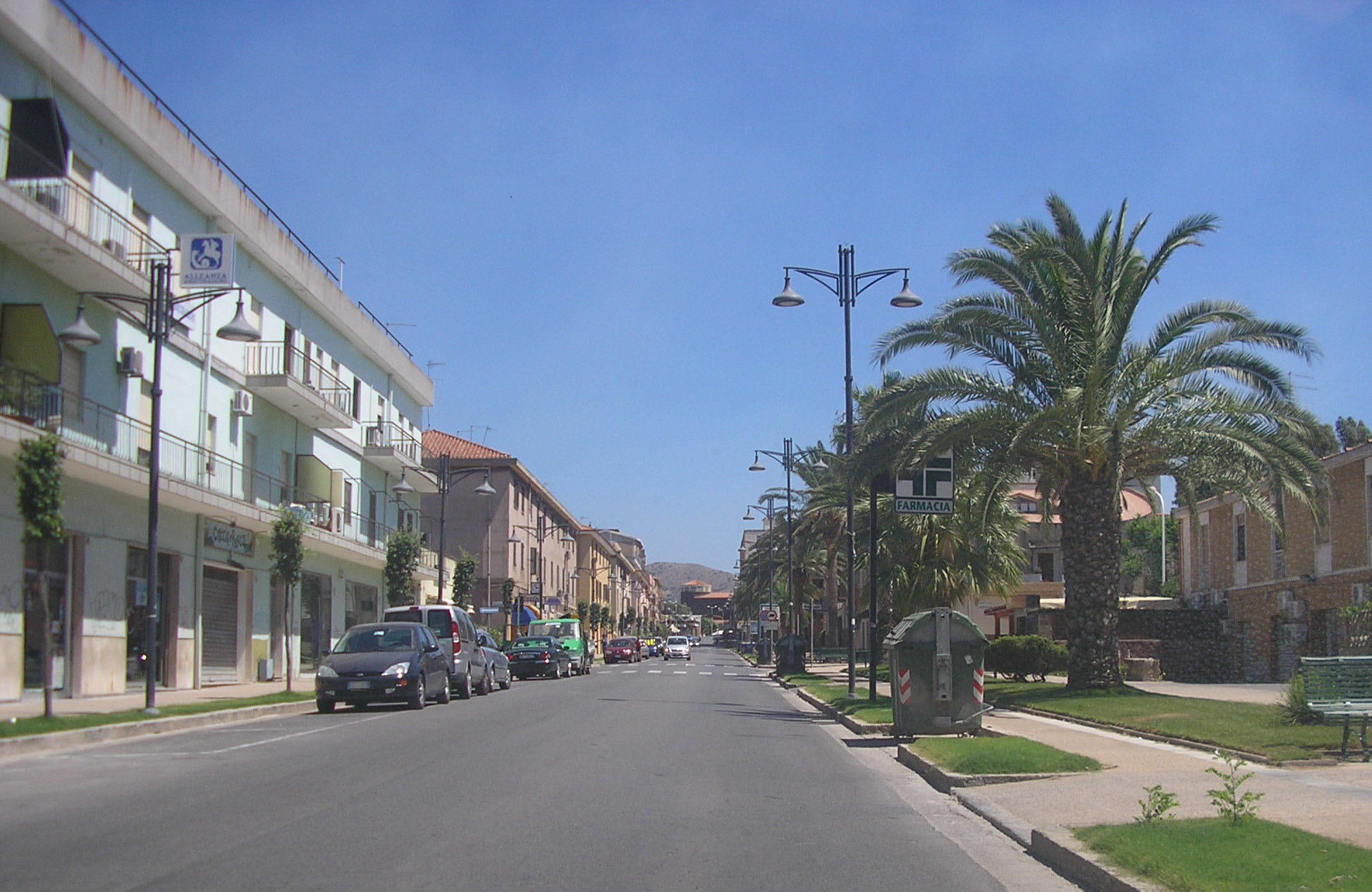 Viale Antonio Gramsci in Carbonia, Sardinia, Italy